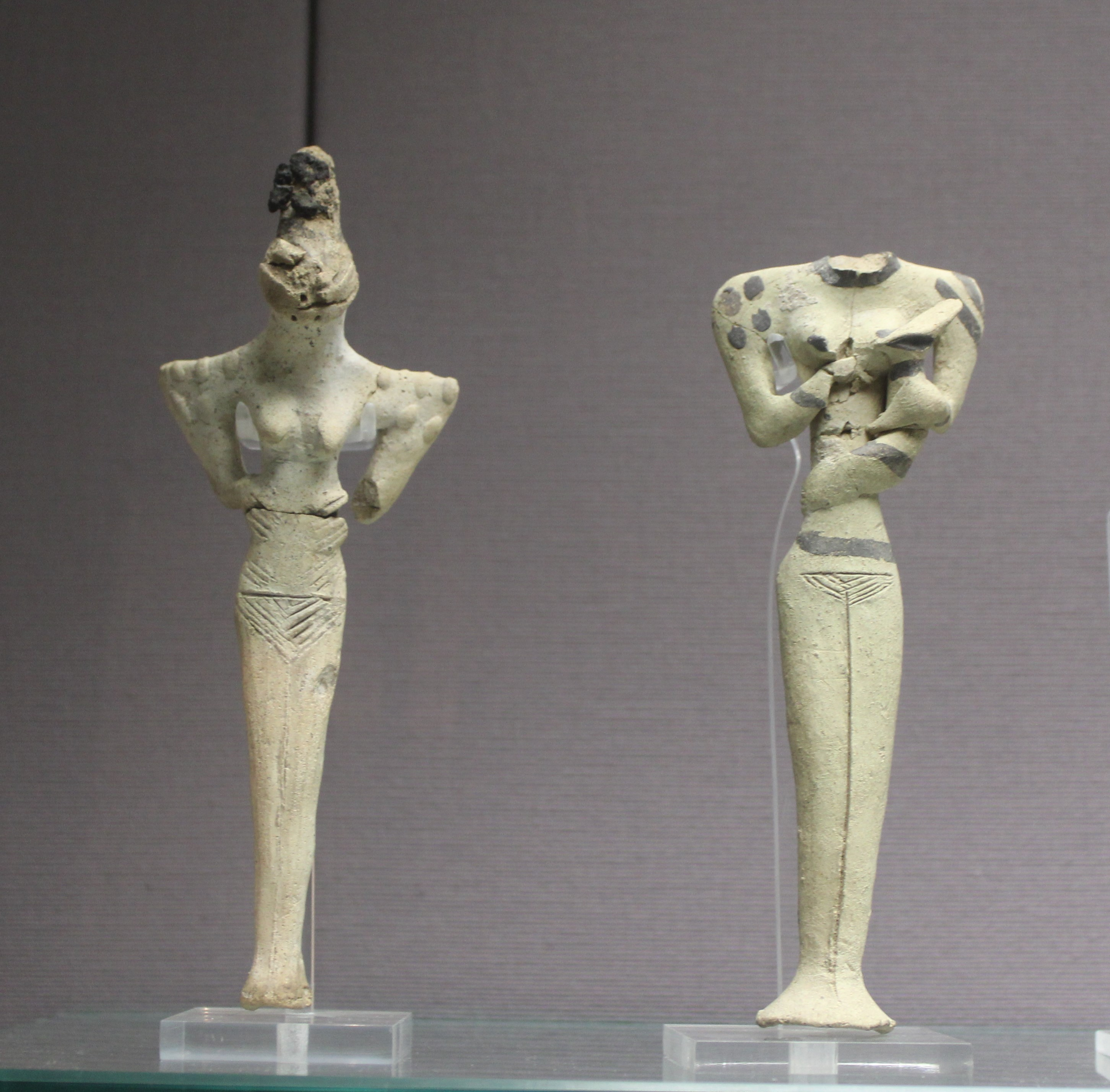 Two female clay figurines. The one on the right feeds a child. Probably made for ritual purposes. Ur, Ubaid Period (c. 5200-4200 BC). ME 122872 and 122873.